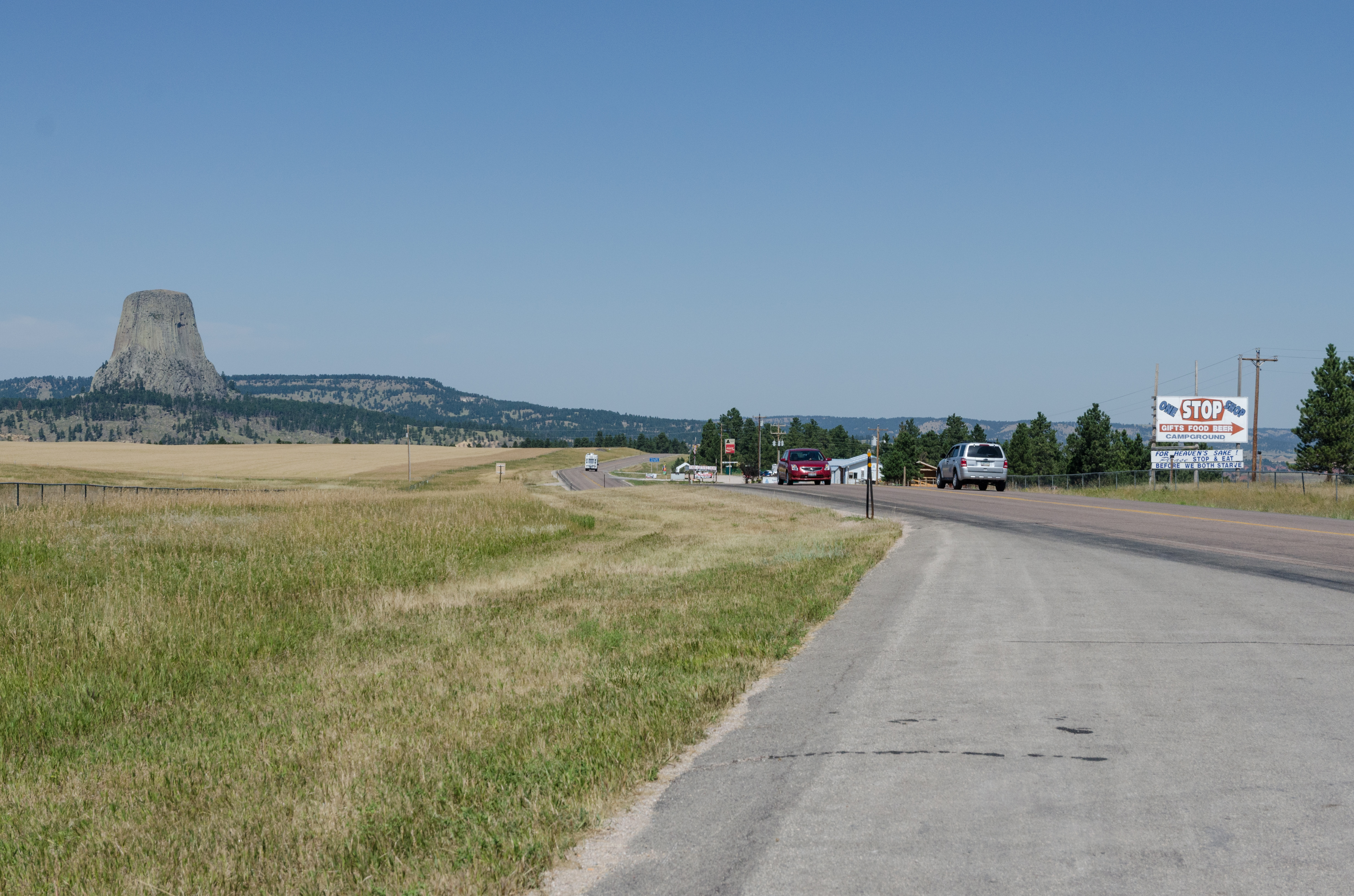 A view of Devils Tower and WYO 24